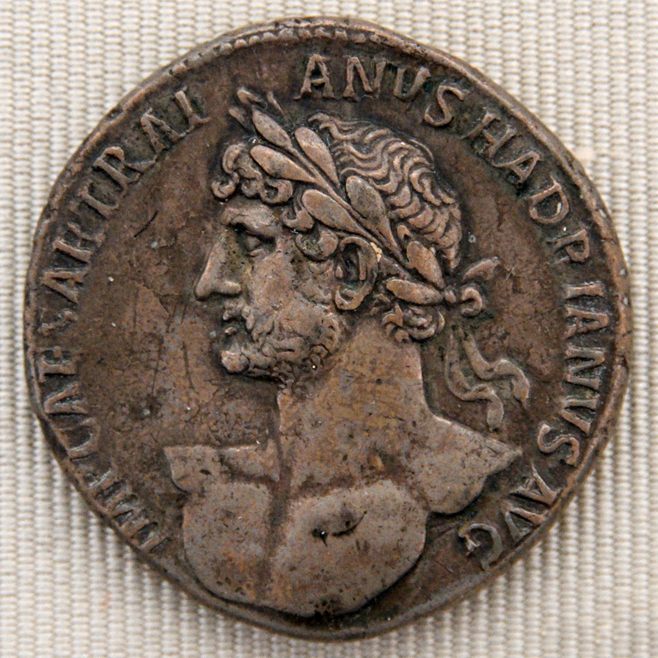 Silver multiple of Hadrian, 119 AD. Weight: 25.69 g.